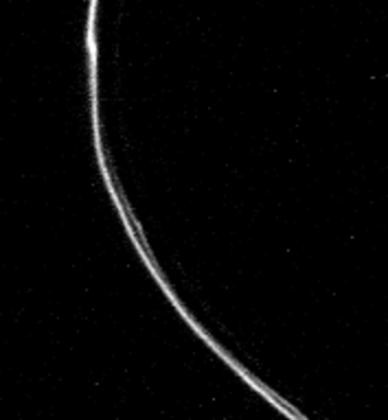 Original Caption Released with Image: Saturn's F, or outermost ring was photographed from the un-illuminated face of the rings by Voyager 1 at a range of 750,000 kilometers (470,000 miles). Complex structure is evident, with several components seen. Two narrow, braided, bright rings that trace distinct orbits are evident. Visible is a broader, very diffuse component about 35 kilometers (20 miles) in width. Also seen are "knots," which probably are local clumps of ring material, but may be mini-moons. The Voyager Project is managed by the Jet Propulsion Laboratory for NASA. Public domain: This file is in the public domain because it was created by NASA. NASA copyright policy states that "NASA material is not protected by copyright unless noted". (NASA copyright policy page or JPL Image Use Policy).